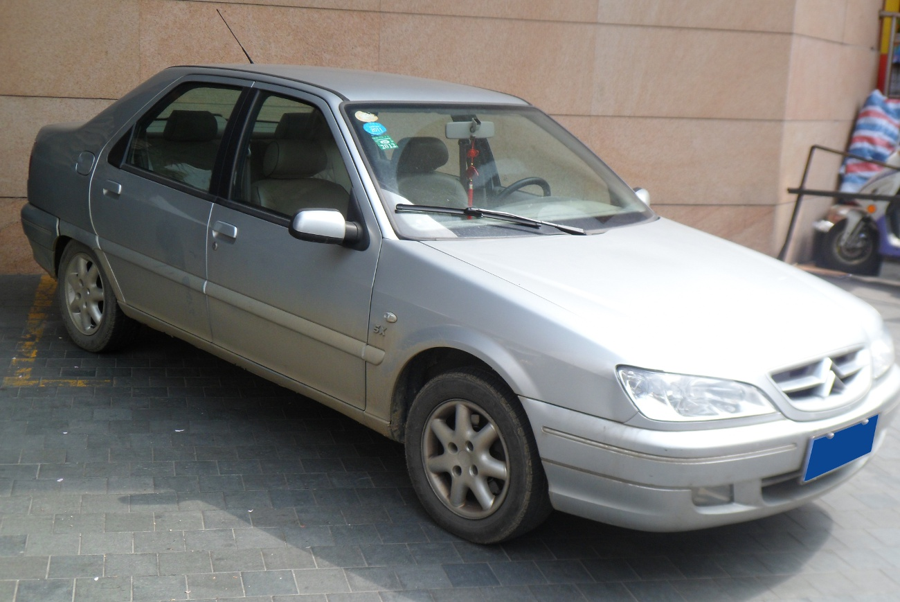 Citroën Elysée photographed in Shanghai, China.